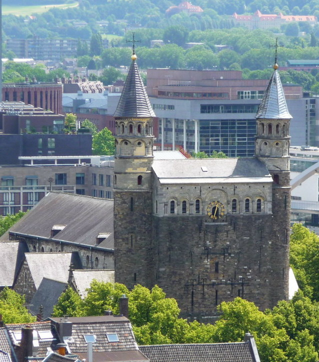 Basilica of Our Lady, Maastricht, Netherlands. View of the city.